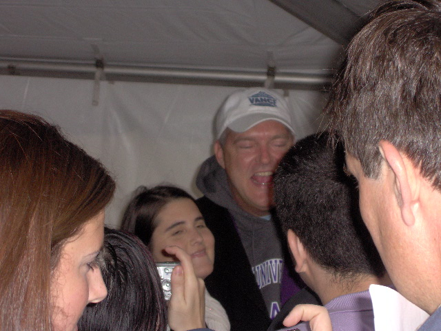 Robert Ray Shafer